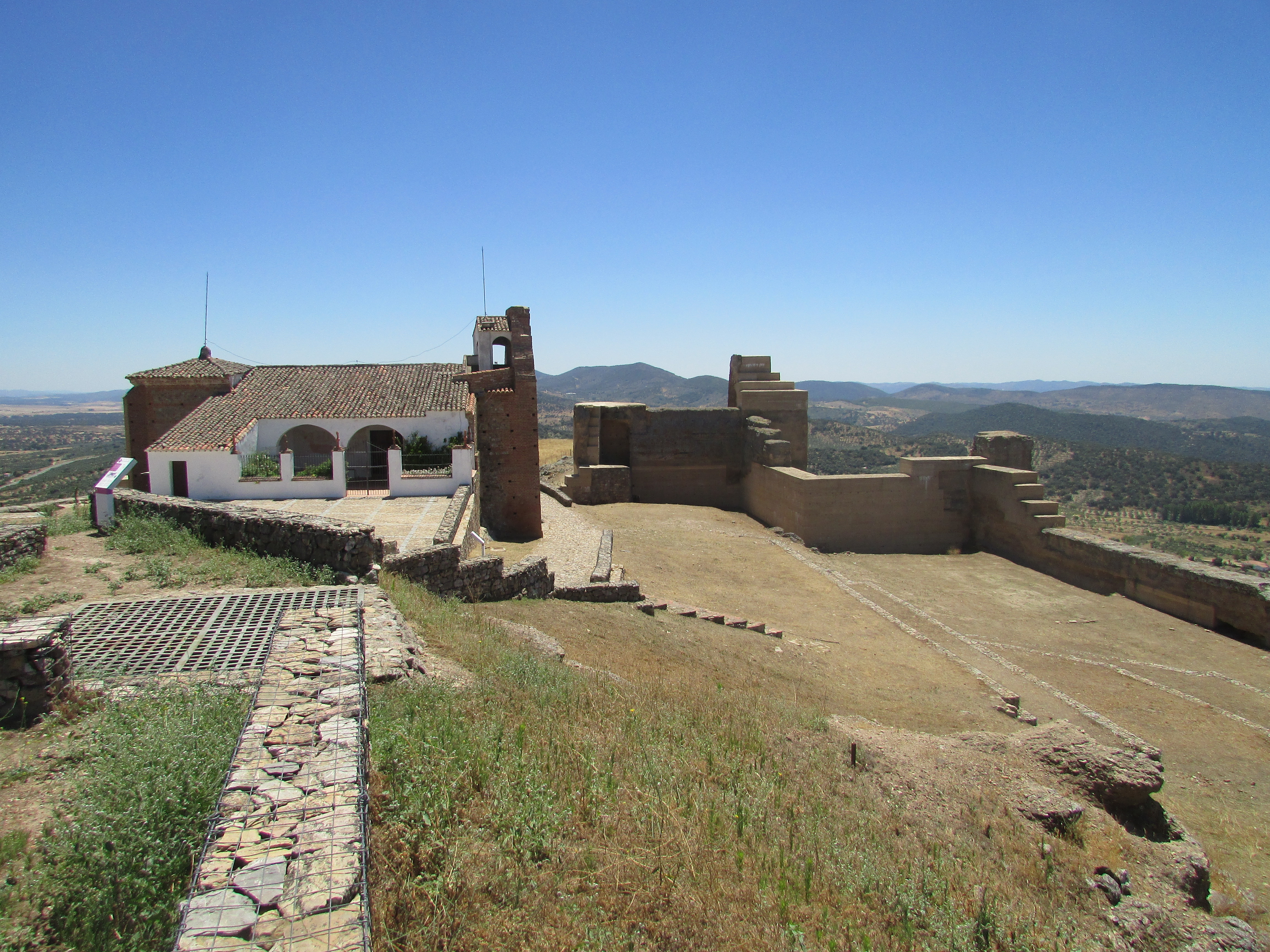 Inside the fortress of the Alcazaba of Reina is preserved ancient Chapel dedicated to the Virgin of the Nieves (Ermita de la Virgen de las Nieves).